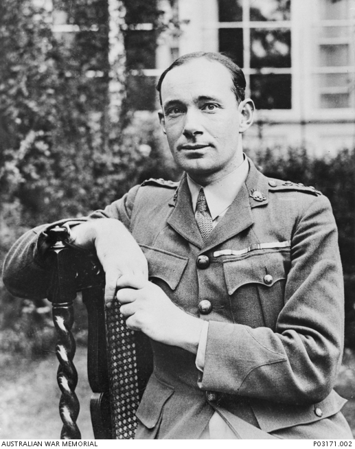 Informal portrait of Captain (Capt) George Hubert Wilkins